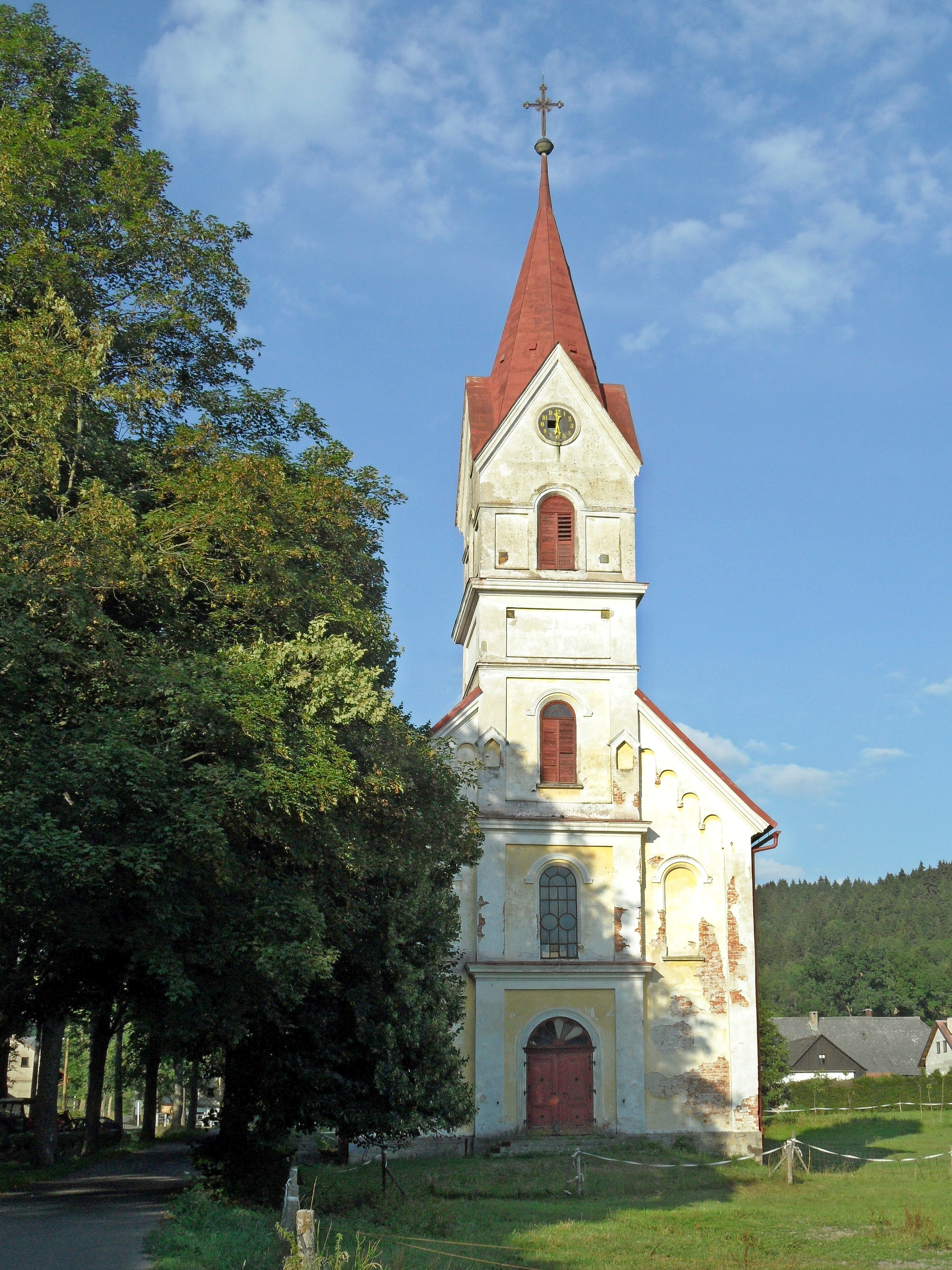 Heřmanice (Králíky) L. Church of of the Holy Trinity, View from South-West. Ústí nad Orlicí District, the Czech Republic.